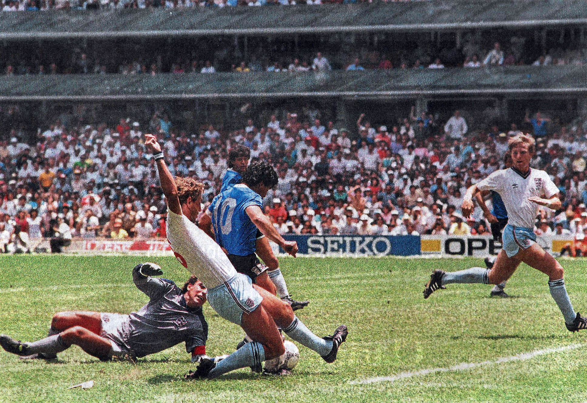 Diego Maradona scoring the goal v. England after dribbling goalkeeper Peter Shilton. Terry Butcher (6) can´t stop the shot.